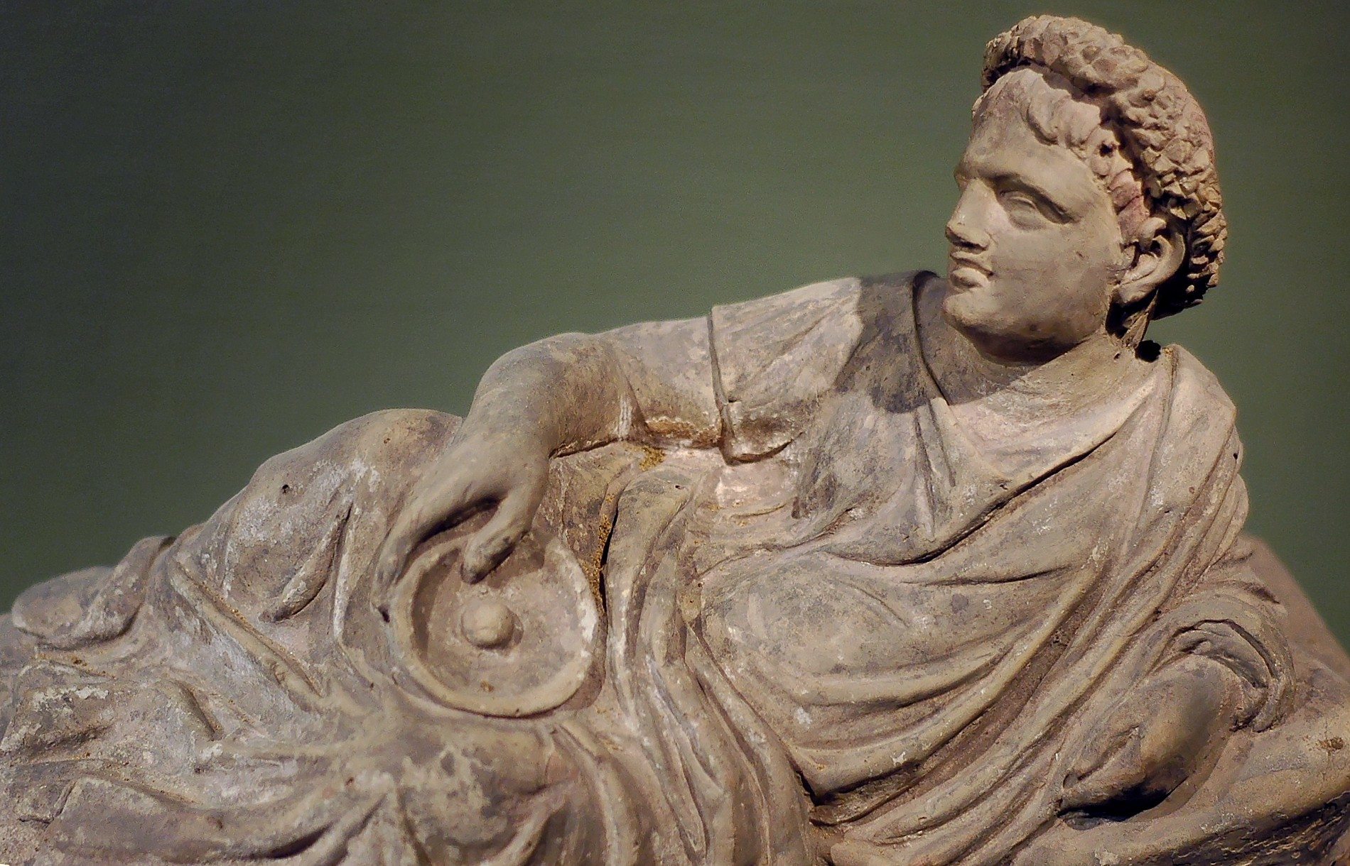 Lid of an Etruscan sarcophagus. Museum Santa Maria della Scala, Siena.